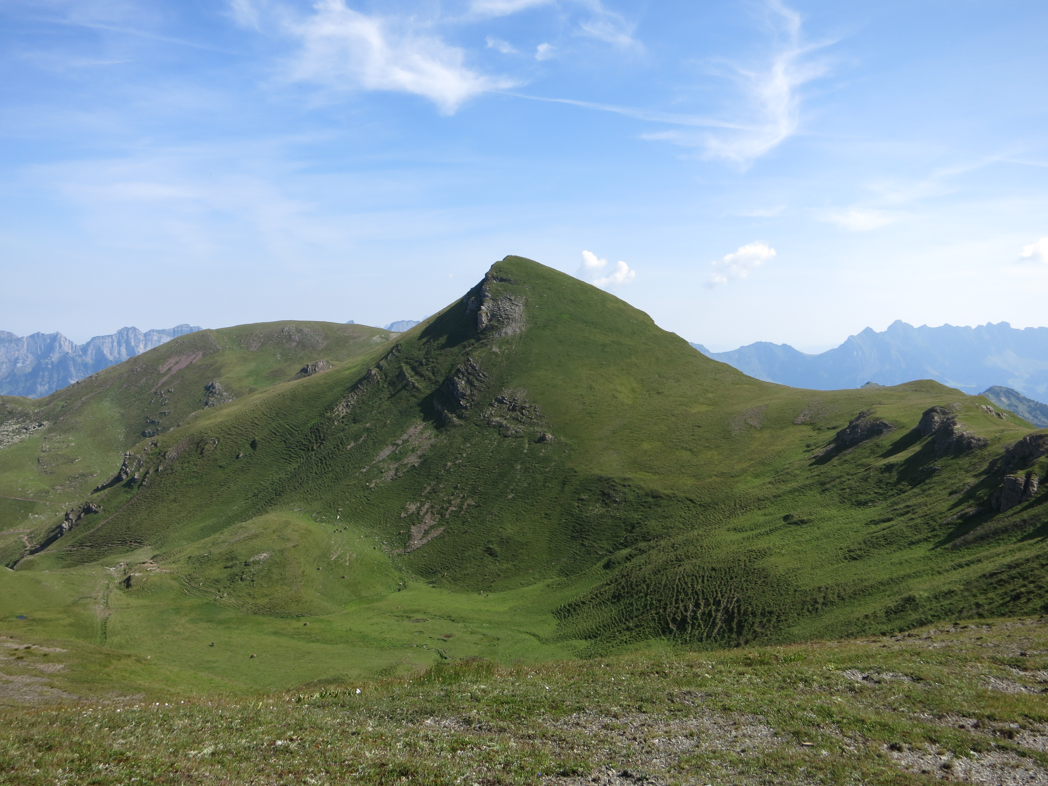 View on mountain Gulmen (Switzerland) from South